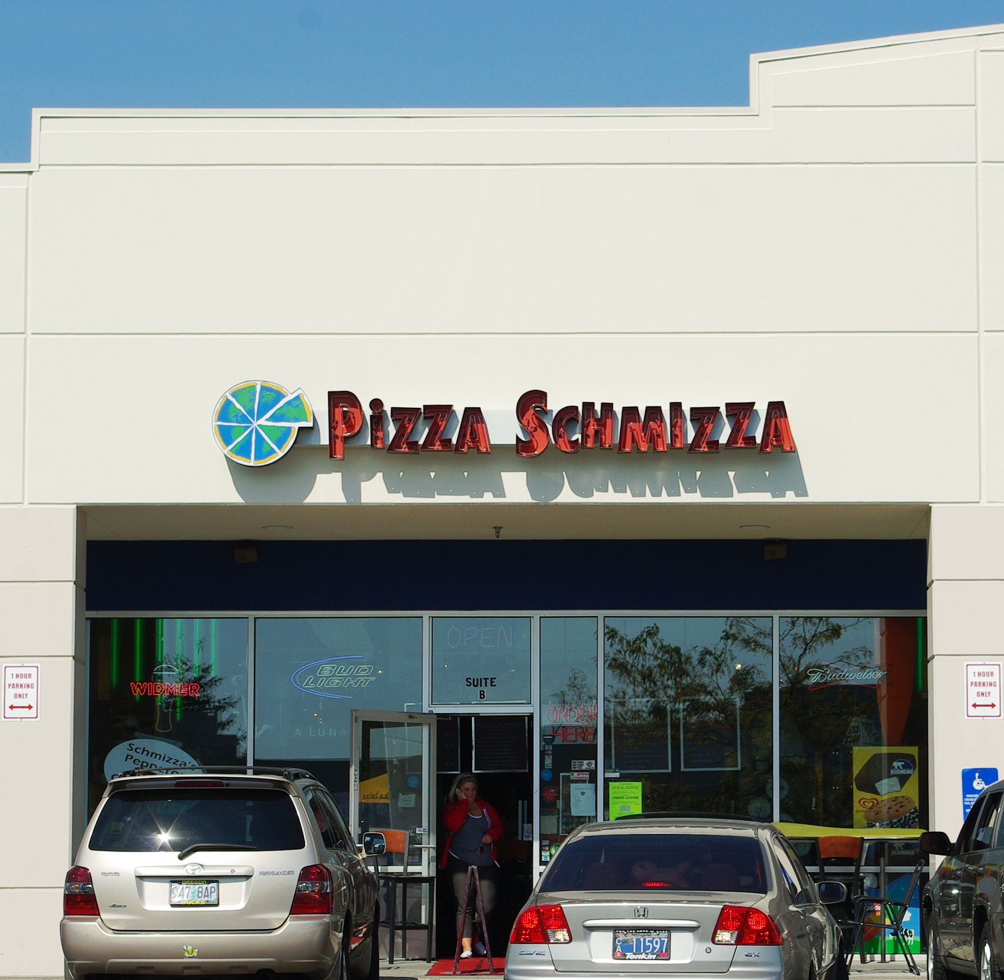 Pizza Schmizza in the Tanasbourne area of Hillsboro, Oregon.